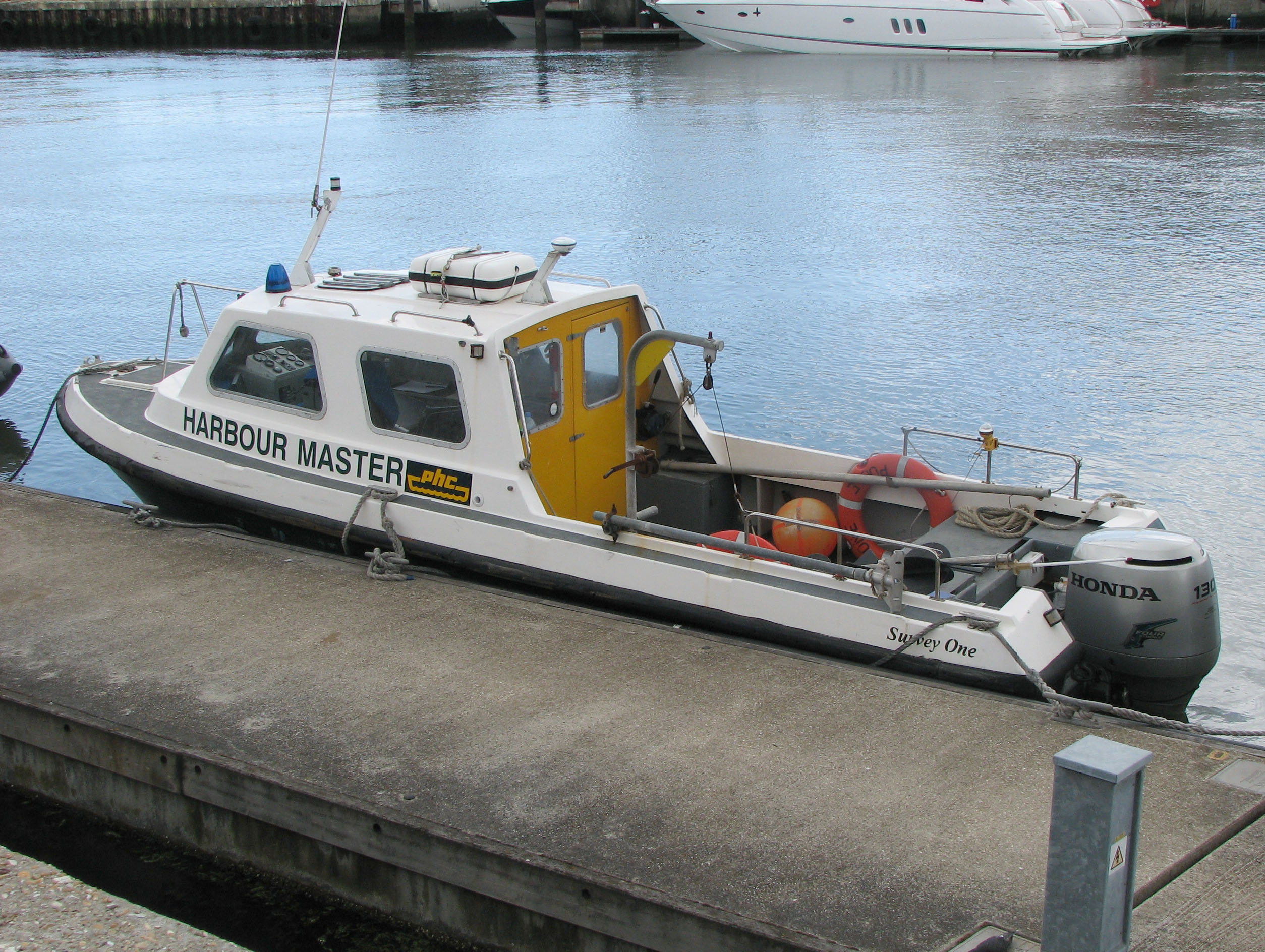 The Harbour Master’s transport at Poole, Dorset, England. Photographed by Adrian Pingstone in June 2006 and placed in the public domain.